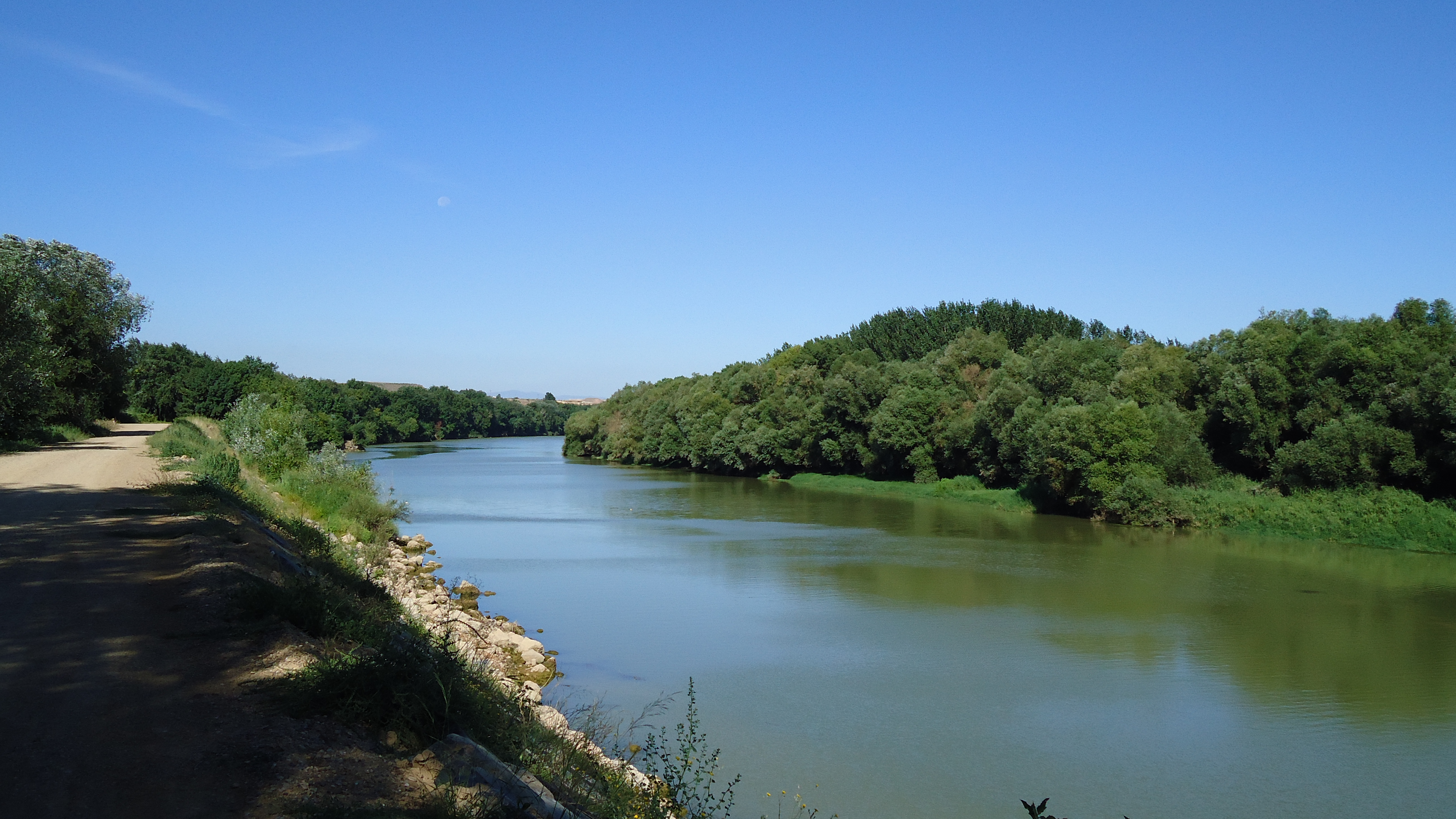 El GR 99 al seu pas per l'Ebre mig, entre Tudela i Buñuel